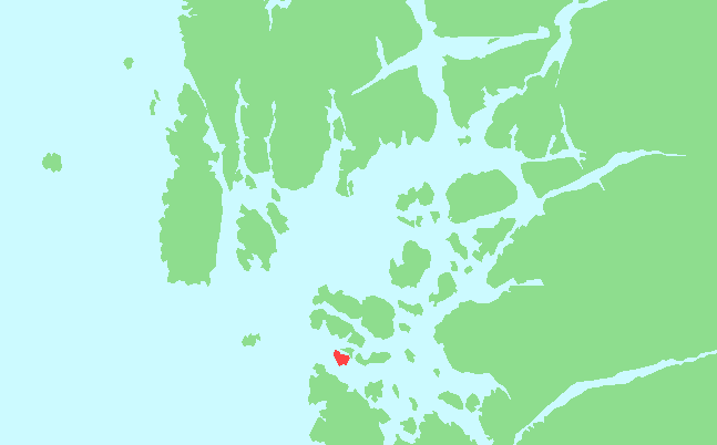 Locator map of Bru, Rogaland, Norway